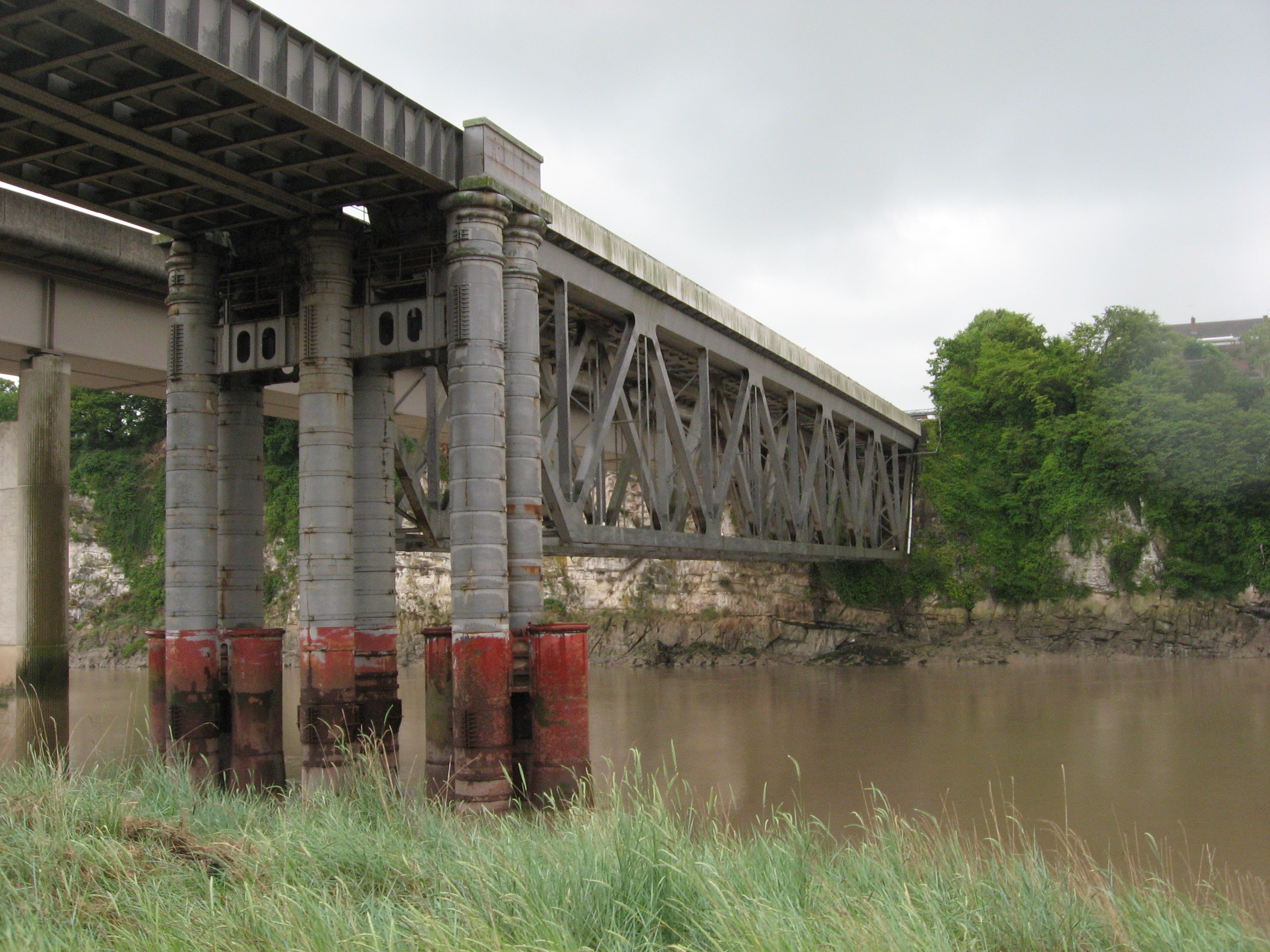 River Wye Railway bridge at Chepstow, Wales